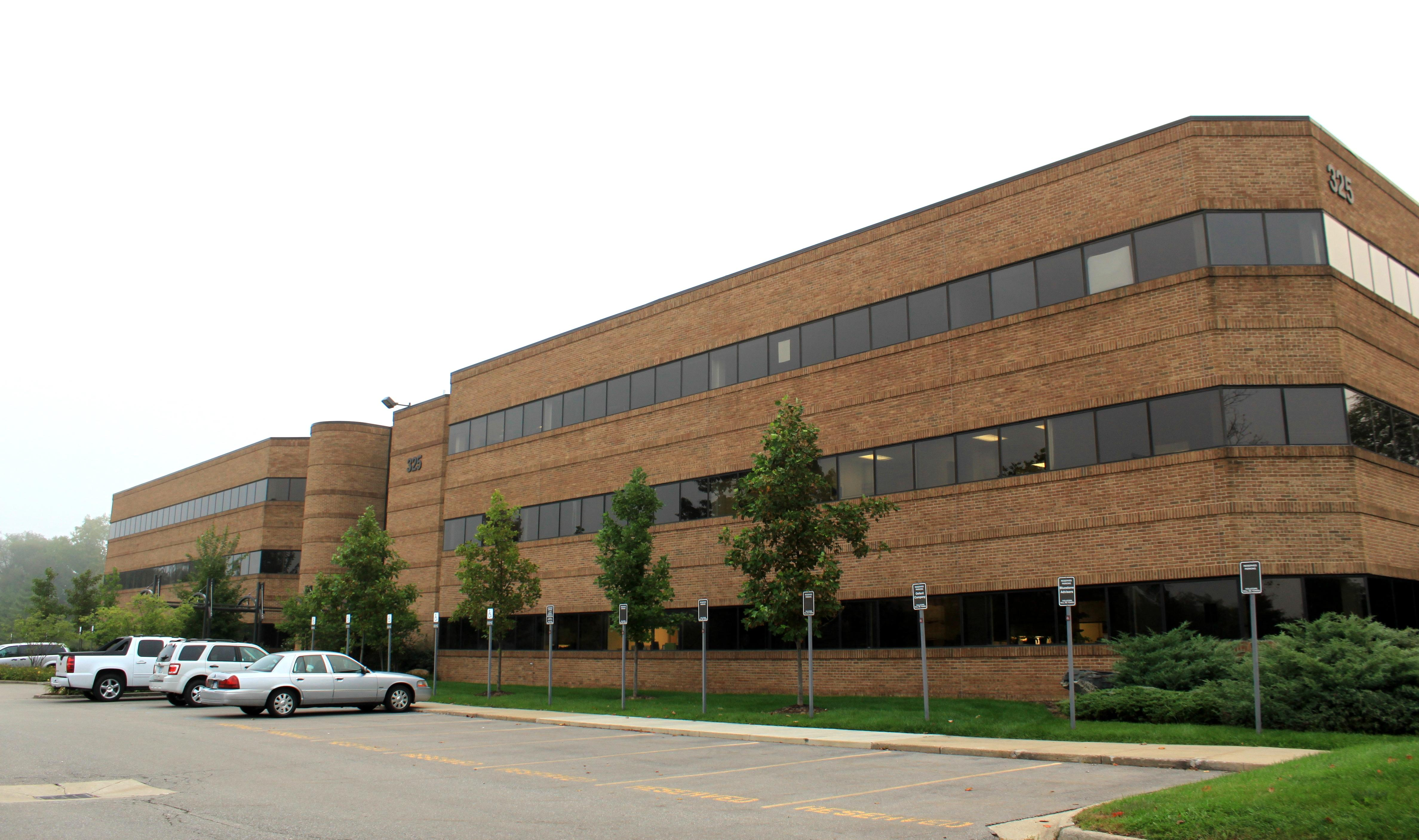 Burlington Office Center, 325 East Eisenhower Parkway, Ann Arbor, Michigan